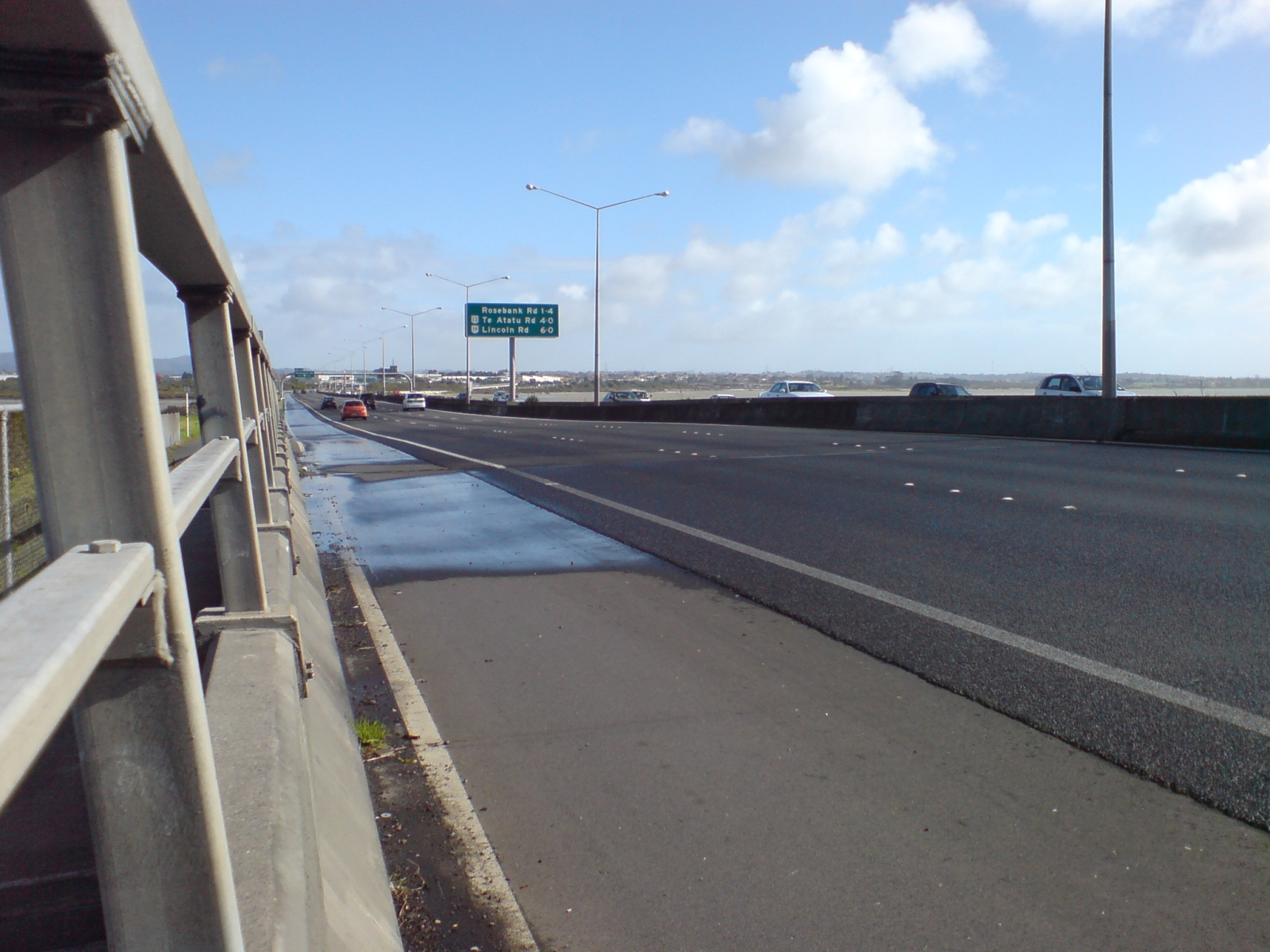 The Northwestern Motorway near Waterview, Auckland, New Zealand. Looking westwards.